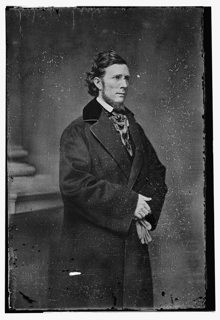 Kentucky Congressman Brutus J. Clay